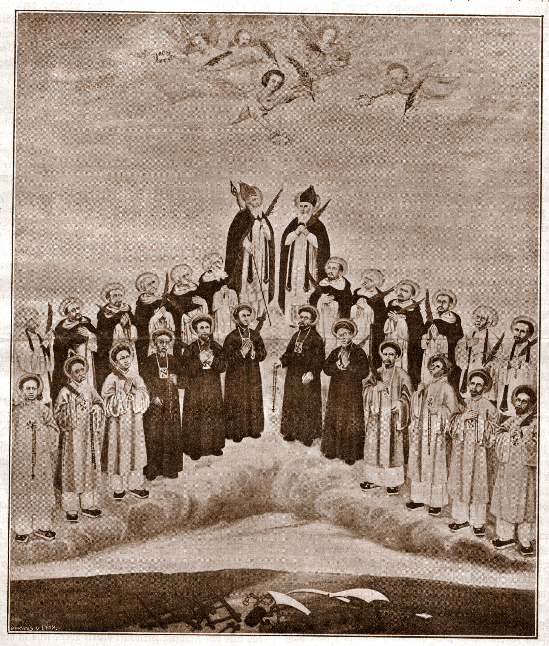 pic in sepia from Tonking's Martyrs, beatified in 1900